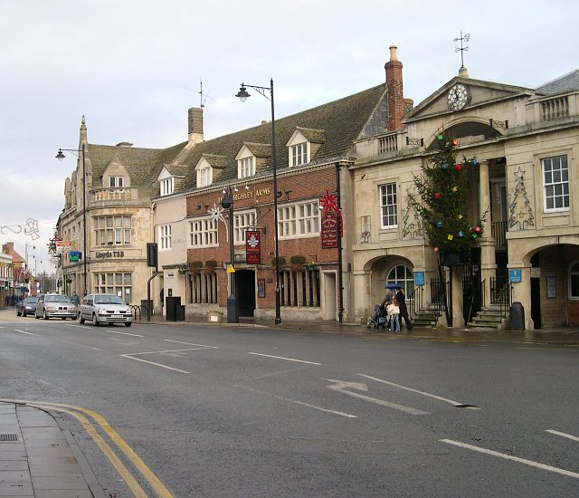 Bourne Town Centre. Bourne is a "market town" in south Lincolnshire. This photograph was taken at the centre of town at the junction of North Street, South Street, West Street and Abbey Road. In years past the market would have been here, now there is just a dangerous amount of traffic and some shops.